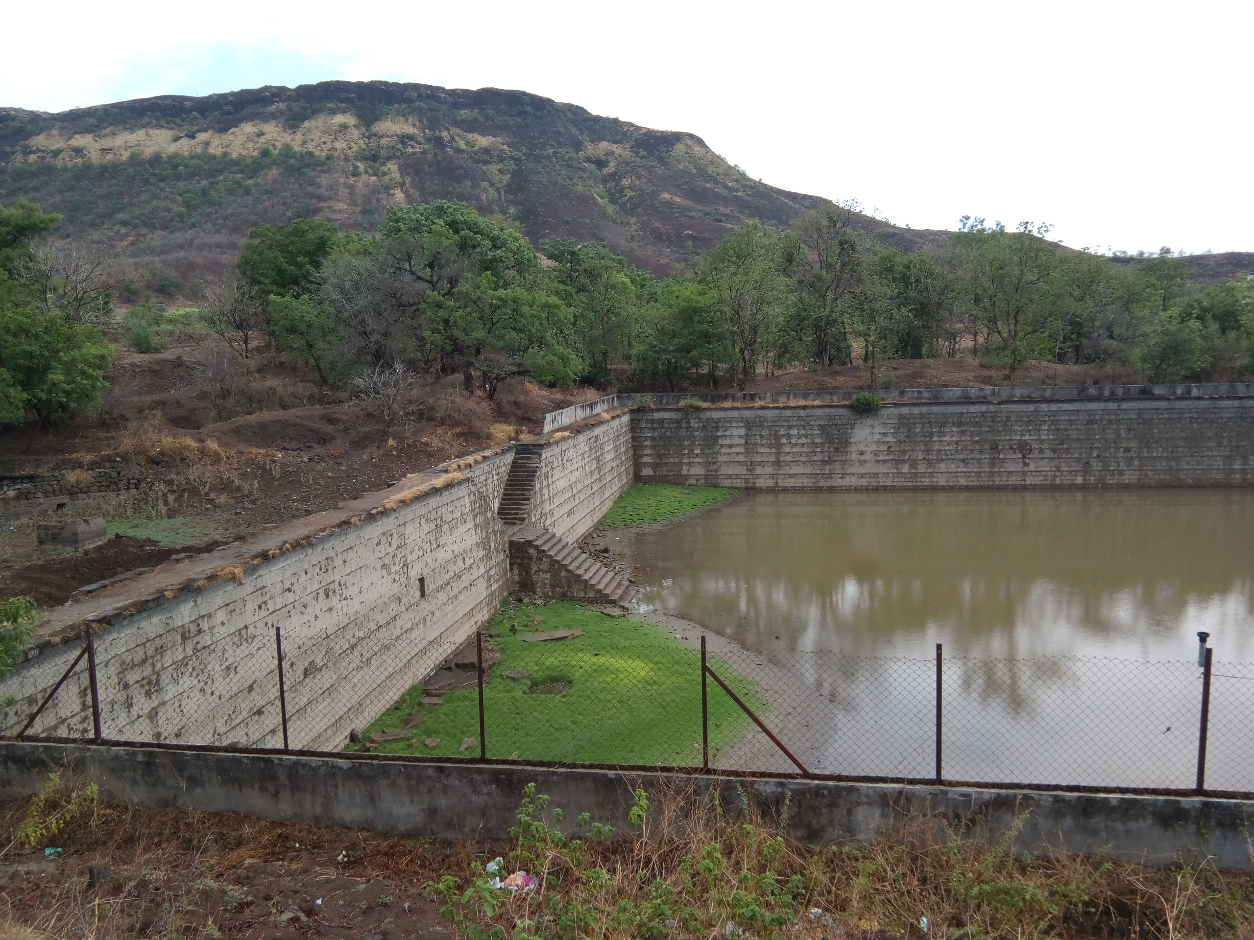 Mahadare water tank